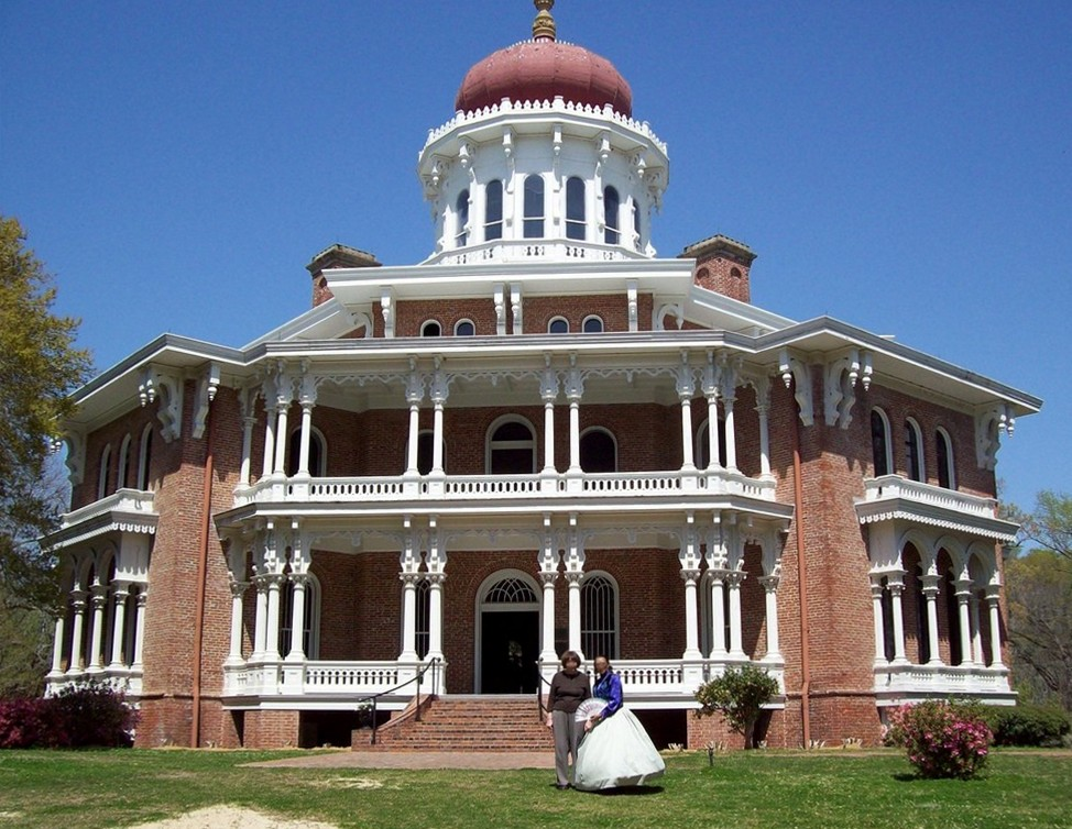 Longwood — Moorish Revival plantation house in Natchez, Mississippi. Listed on the National Register of Historic Places. (Original description: My mom and a tour guide in Longwood)